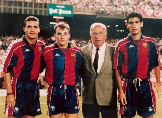 FC Barcelona players, from left to right: Guillermo Amor, Albert Ferrer, Josep Mussons (former FC Barcelona vicepresident) and Josep Guardiola.